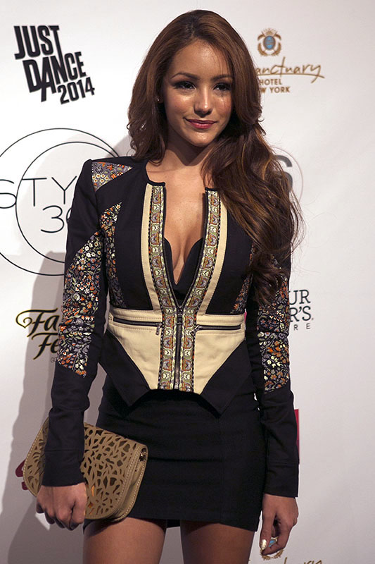 MTV actress and model Melanie Iglesias during NYFW 2013